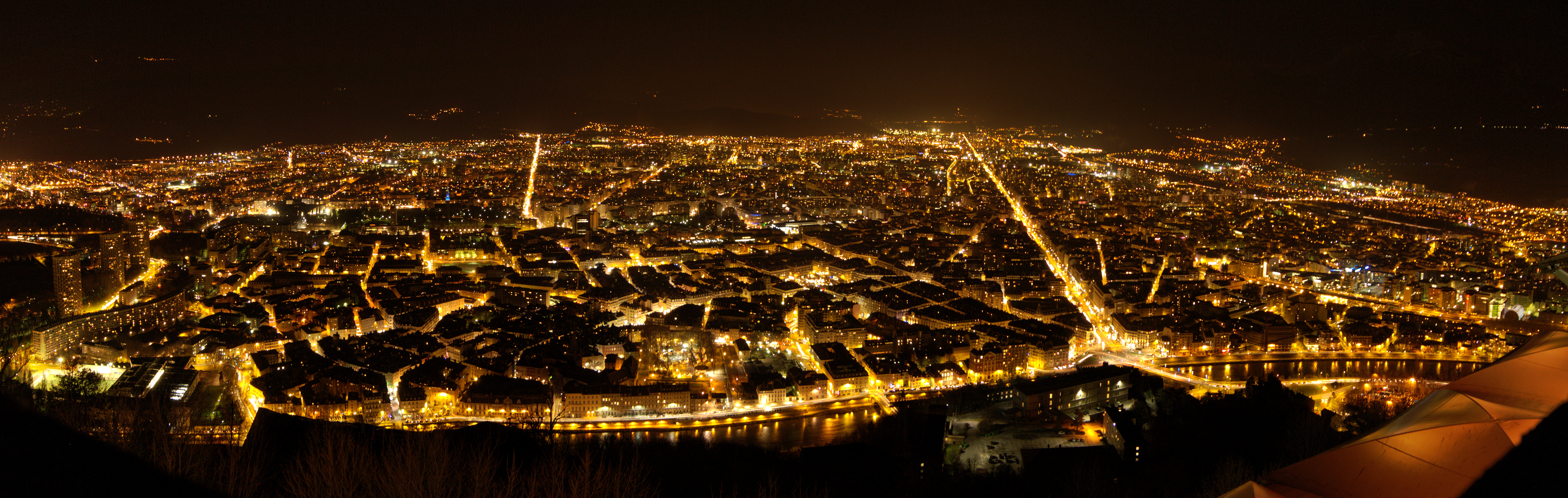 Grenoble at night seen from the Bastille in Winter 2010.